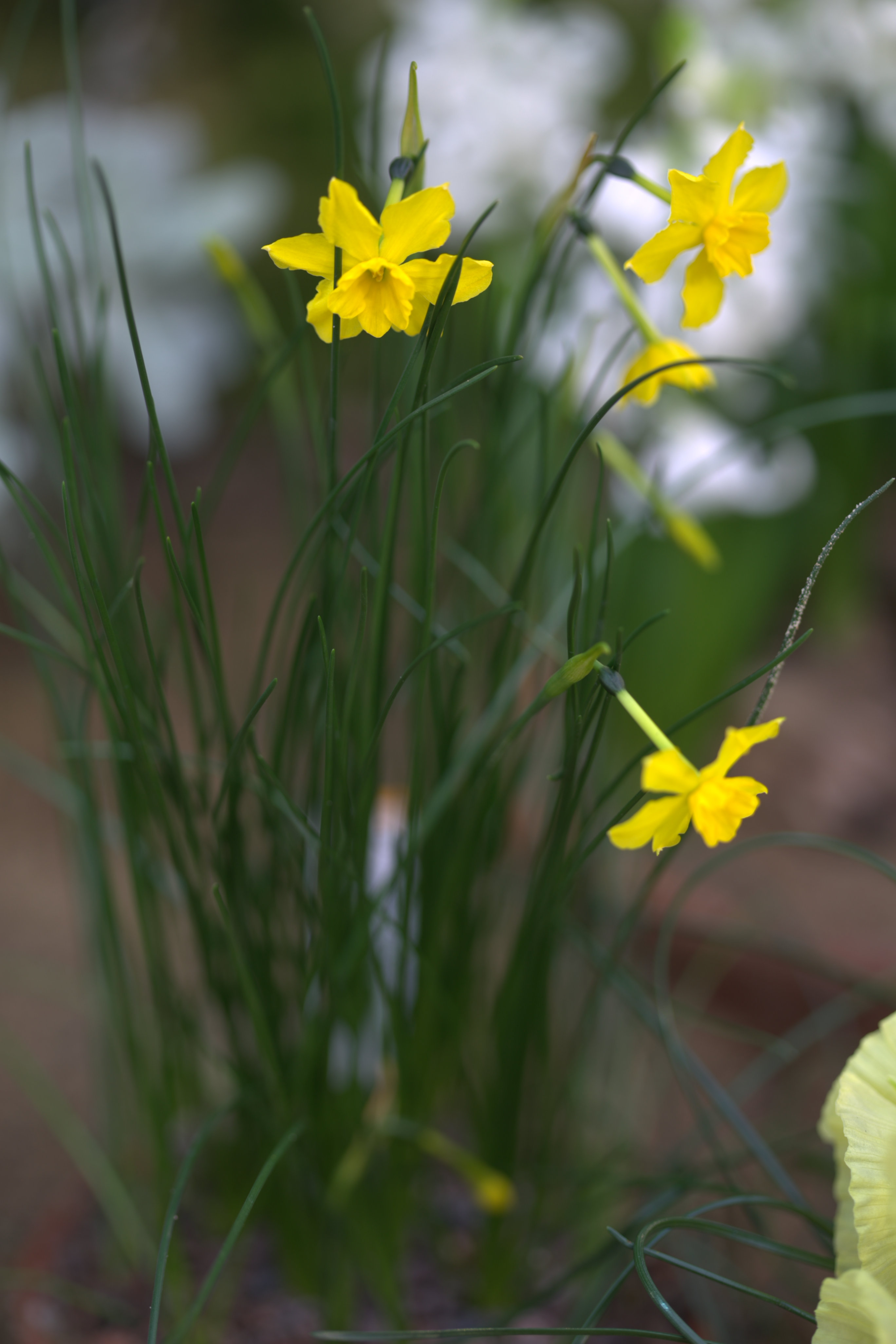 Narcissus jonquilla in Gotheburg Botanical Garden. Plant id: 1997-1339 s Z